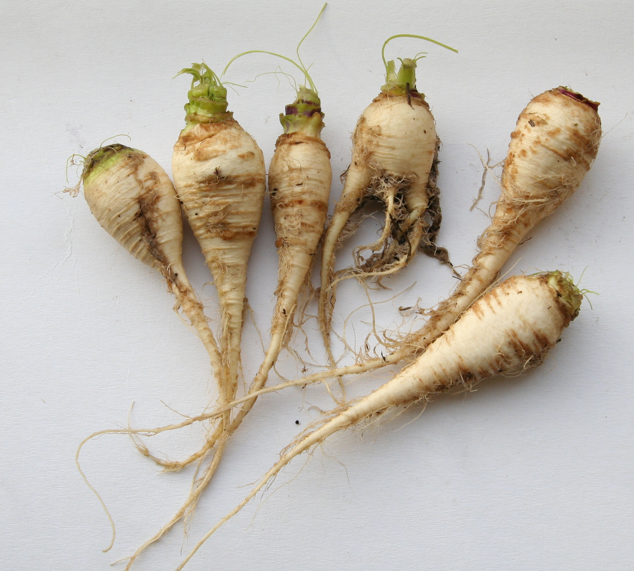 Teltower Rübchen (Brassica_rapa_ssp_rapa_var_pygmaea.jpg)